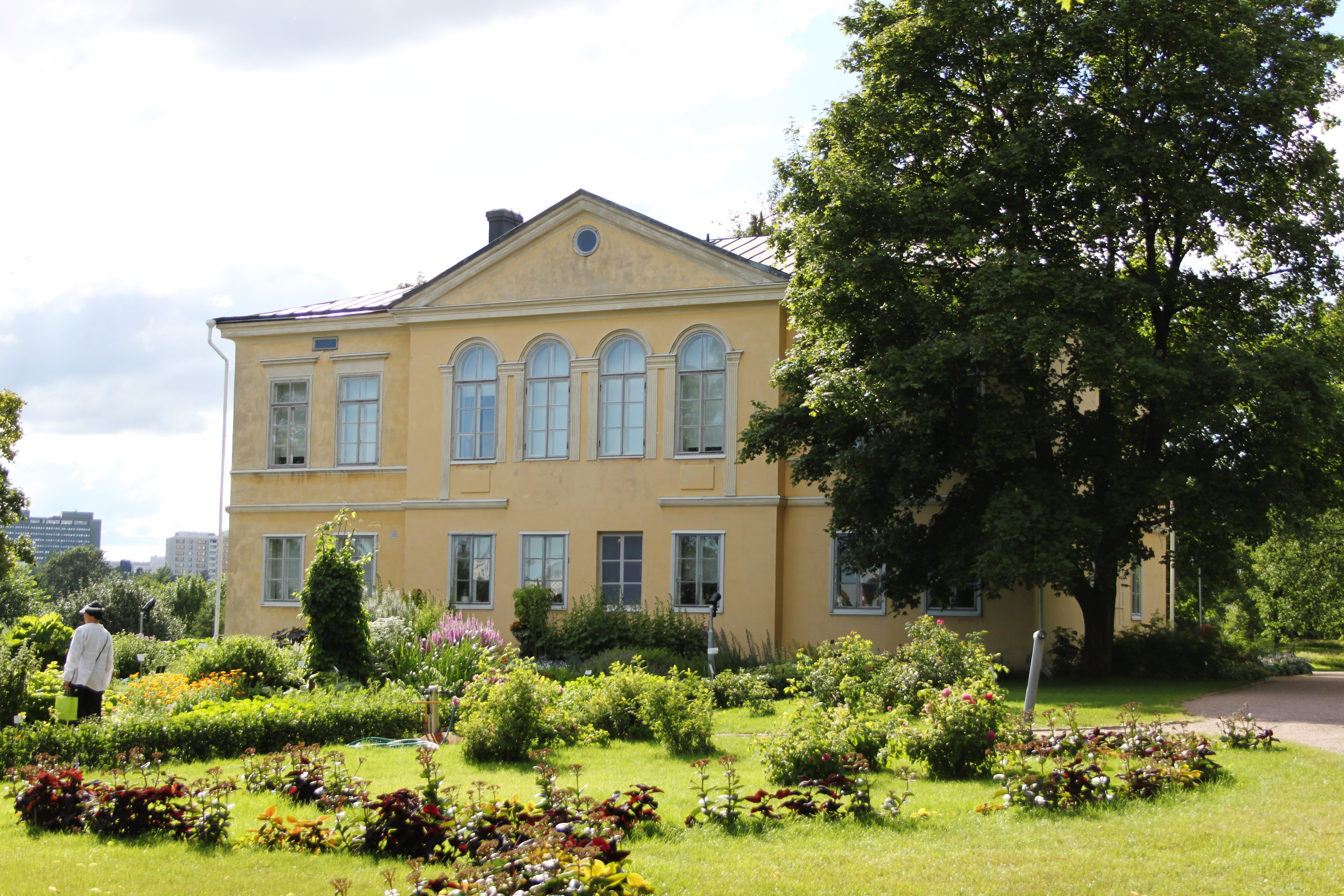 Kumpula manor, Helsinki. Built 1884.